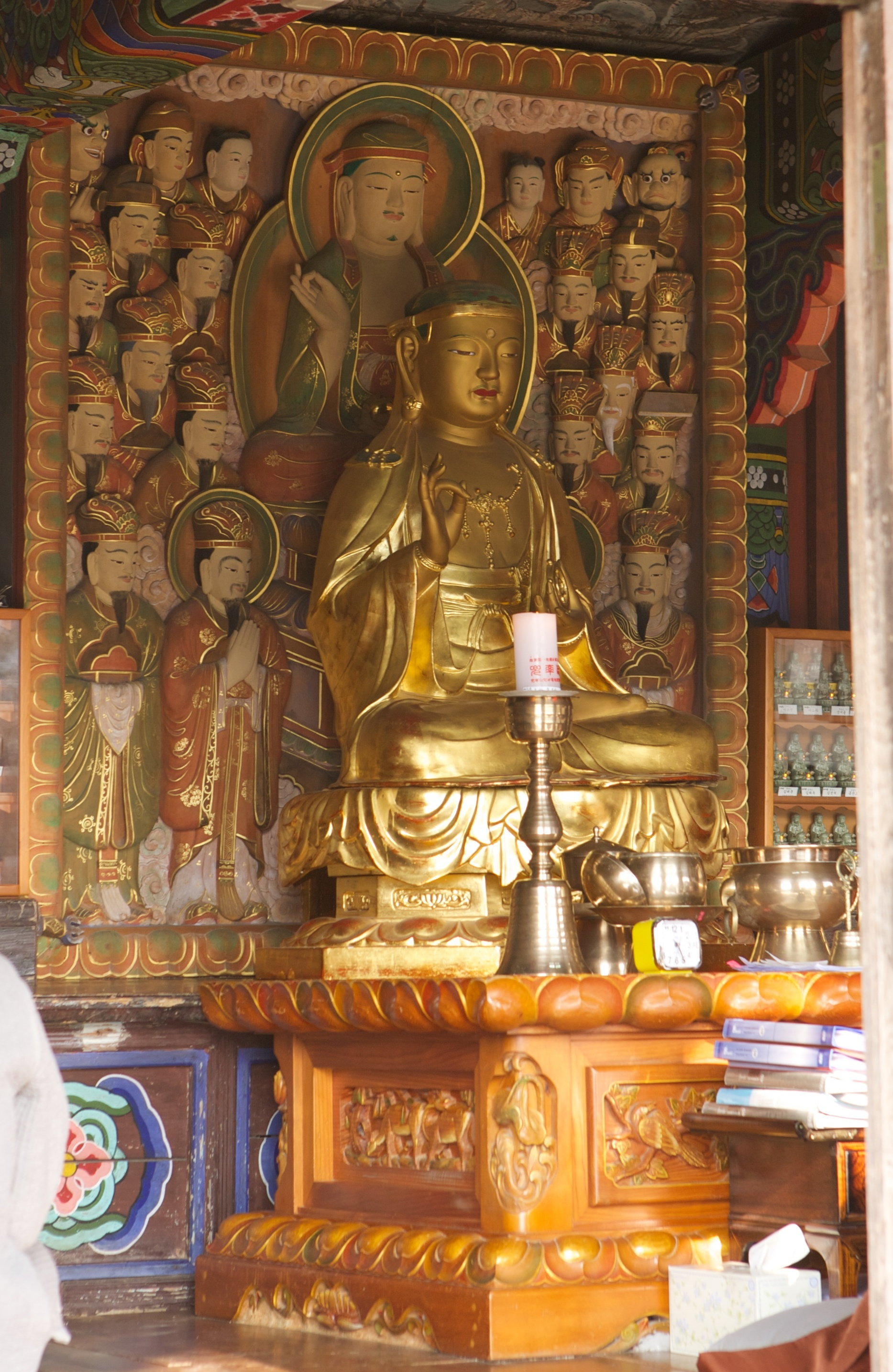 Seated Gilt-bronze Ksitigarbha Bodhisattva at Dosolam Hermitage, Seonunsa Temple in Gochang, Korea